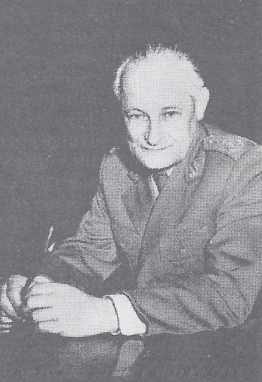 Ivan Rukavina (January 26, 1912 – April 3, 1992), Croatian general